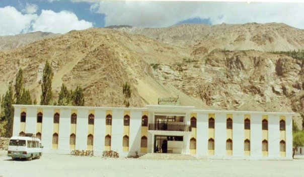 Ghowari Jamia, University